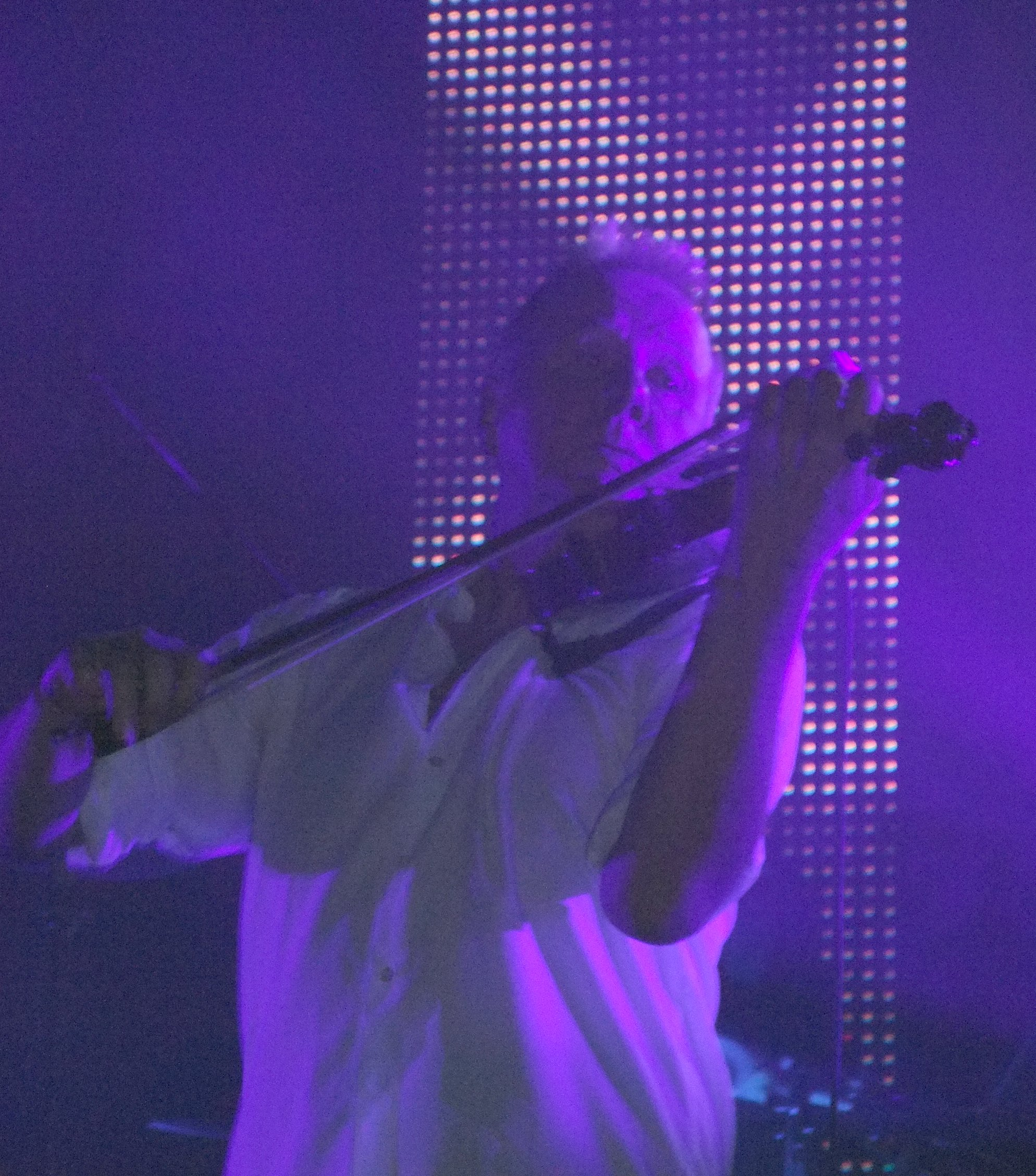 Billy Currie at The Roundhouse, 30th April 2009